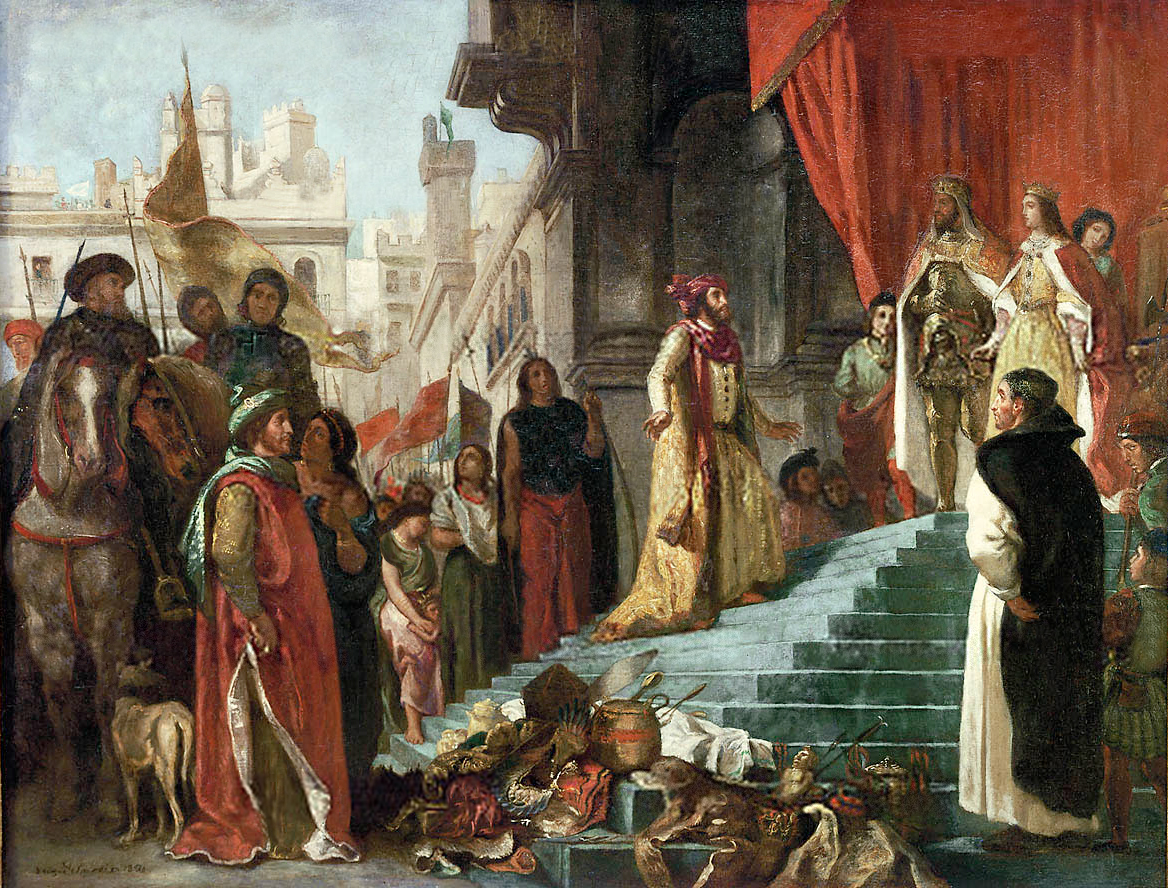 Eugene Delacroix painting "The Return of Christopher Columbus." This print has a modesty edit of a woman (child at her knee) and male Indian (standing behind Columbus). Oil on Canvas